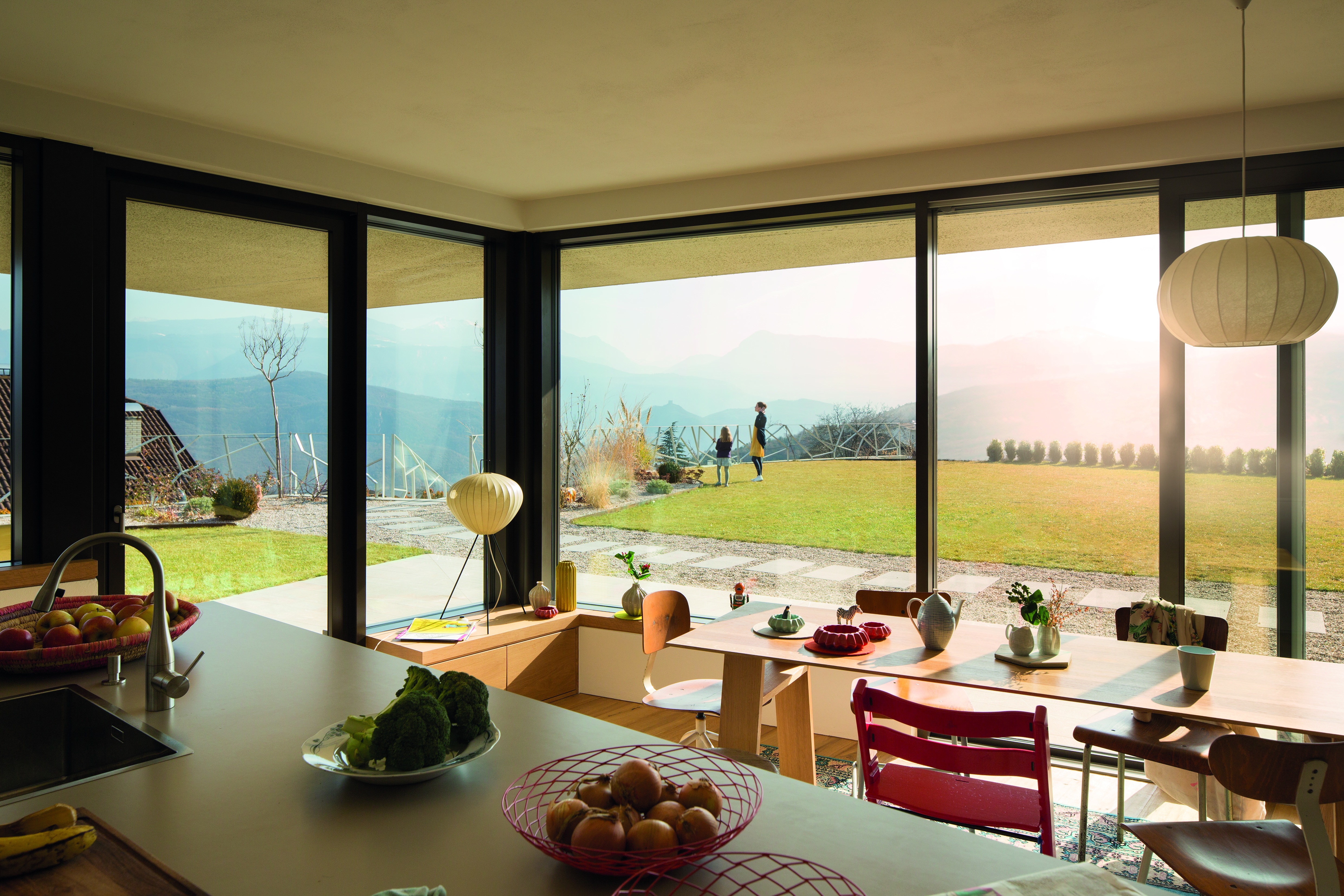 FIN-Project Nova-line & Ganzglasfenster Vista für viel Licht und funktionales Design